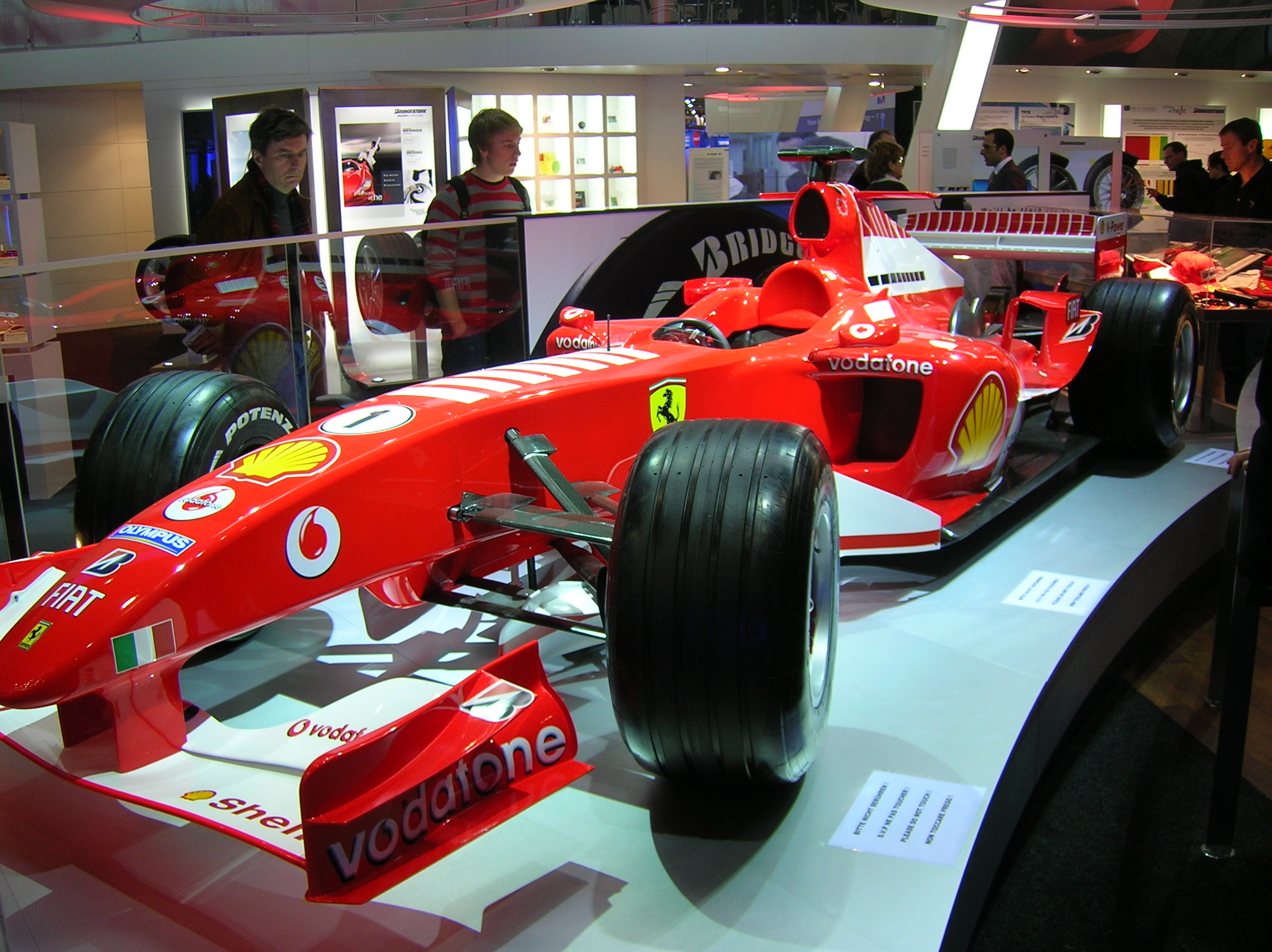 76th international Motorshow Geneva 2006 - F1 Ferrari F2004 (2005 livery)